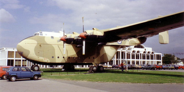 RAF Museum, 1989 The RAF Museum's main entrance is seen behind Blackburn Beverley XH124. This aircraft, built in 1957, stood outside the museum from its opening in 1973 until 1990, when its condition had deteriorated so much that it had to be scrapped. For more on this sad event